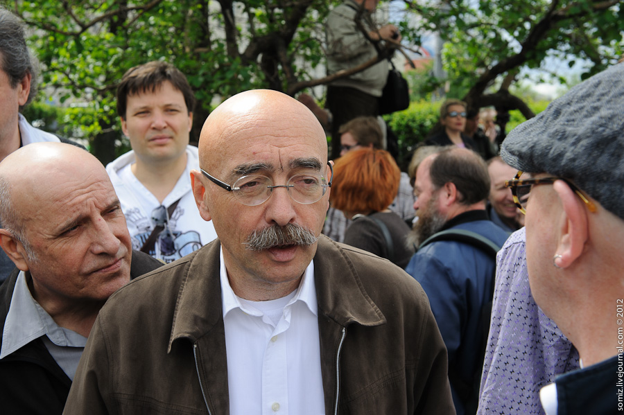 May 13, in Moscow, held a civil action under the title "Control Walking." The essence of the campaign was to show the power (to Vladimir Putin) that citizens can assemble peacefully, and where they want to go where they want. And no one can restrict civil liberties. The action was led by Russian writers. Thousands of people strolled along the boulevards of the capital.